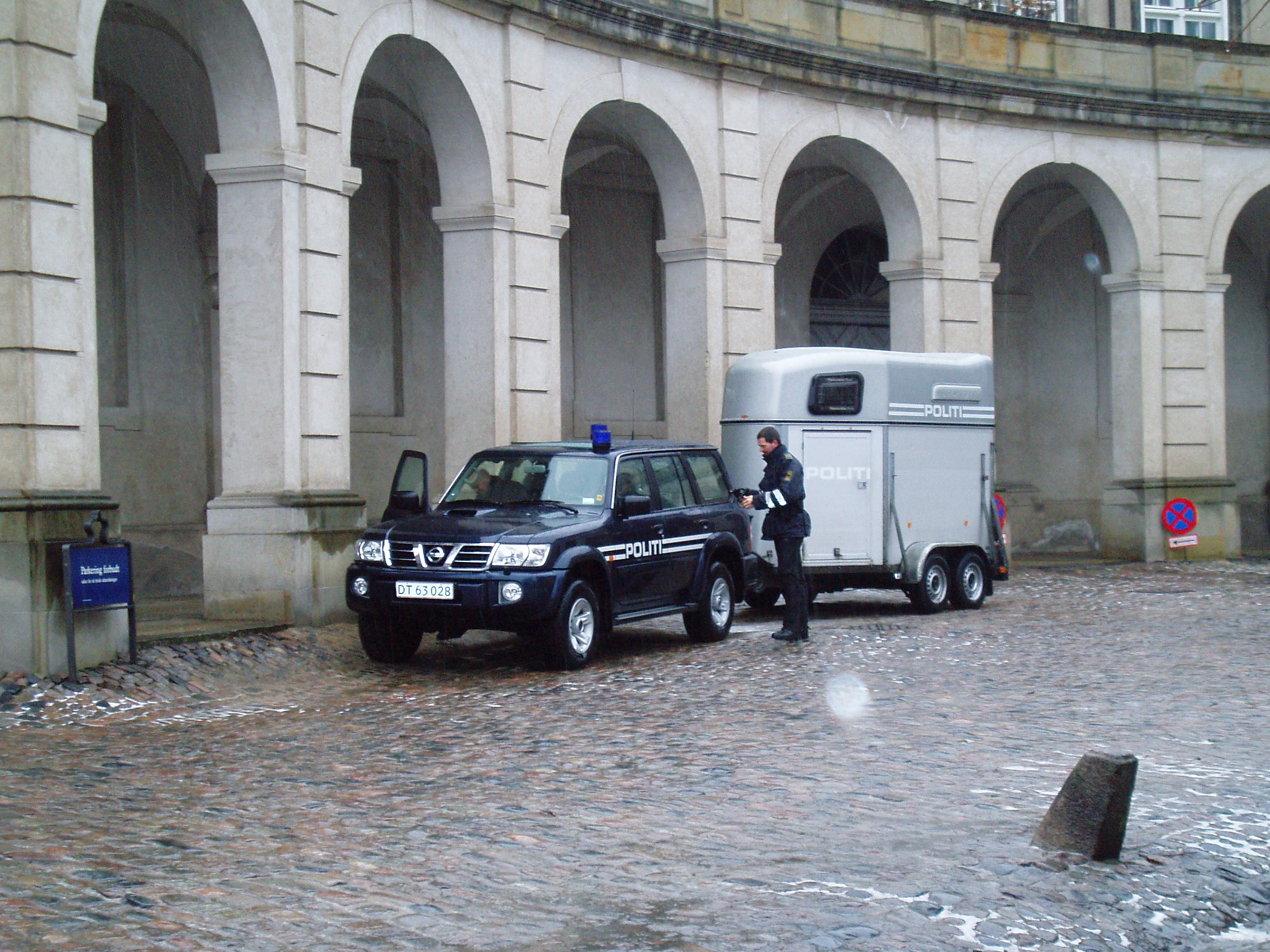 Copenhagen Police horse section finishing patrol at Christiansborg.